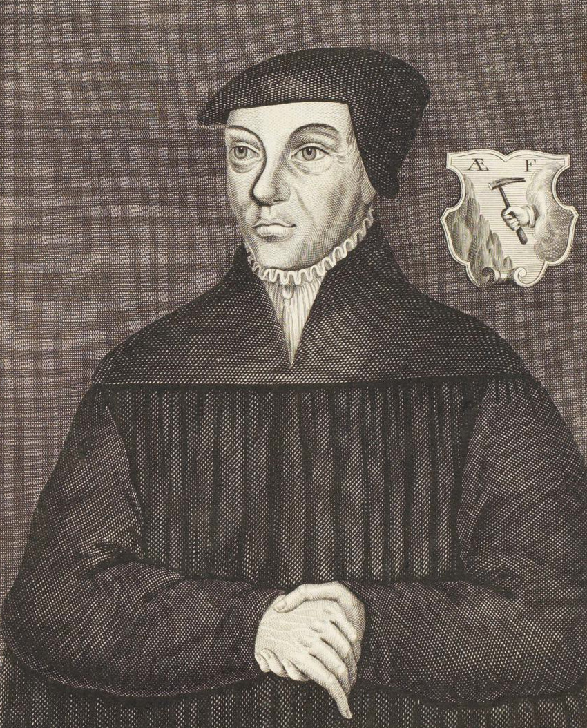 Engraved portrait of Ägidius Faber, in: in: Monumenta inedita rerum Germanicarum praecipue Cimbriacarum et Megapolensium : quibus varia antiquitatum, historiarum, legum iuriumque Germaniae, speciatim Holsatiae et Megapoleos vicinarumque regionum argumenta illustrantur, supplentur et stabiliuntur ; cum tabulis aeri incisis / e codicibus ... studuit ... et cum praefatione instruxit Ernestus Joachimus de Westphalen .. Band 3, Lipsiae: Martin 1741